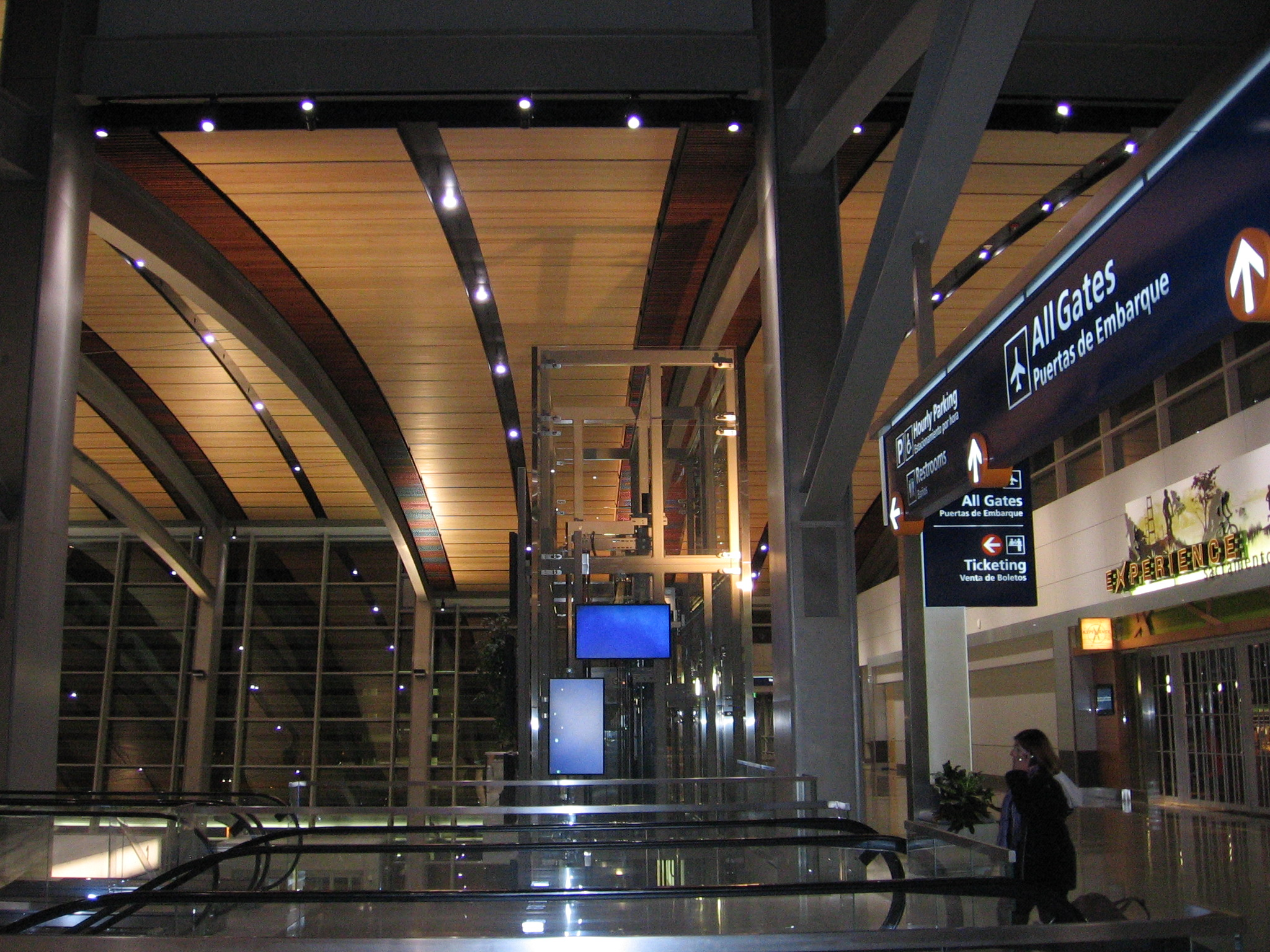 Interior of new Central Terminal B at the Sacramento International Airport in Sacramento County, California, USA.